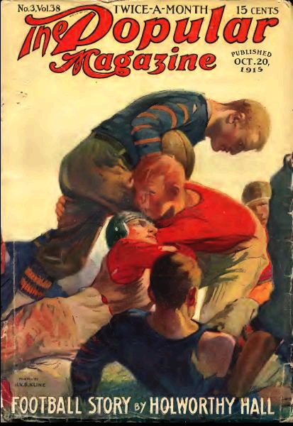 Cover page of The Popular Magazine, Oct 20, 1915. Illustrating the story "Up the street" by Holworthy Hall. Illustrator, H. V. B. Kline